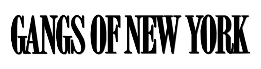 Gangs of New York logo